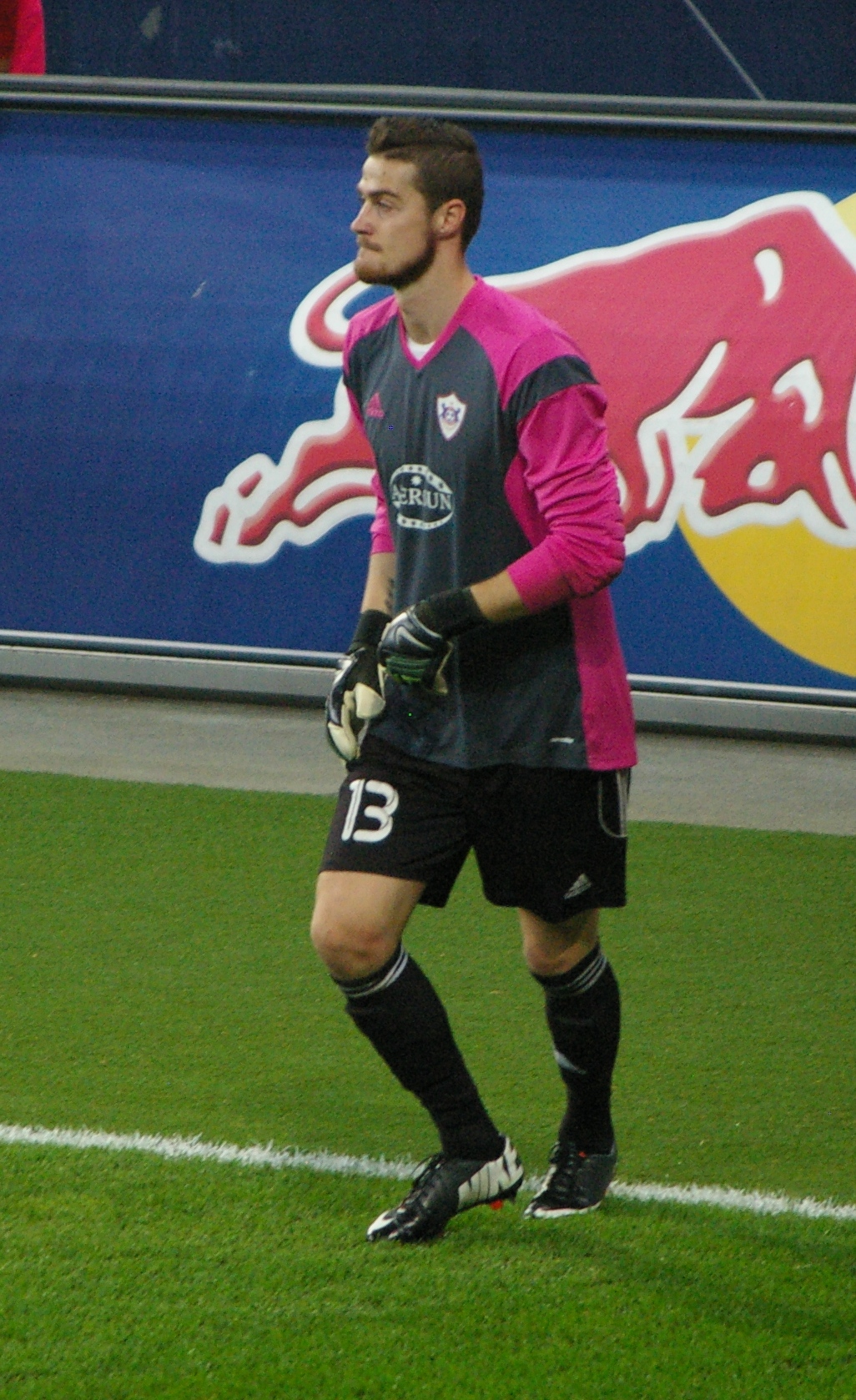 Championsleague Qualifier 3rd round